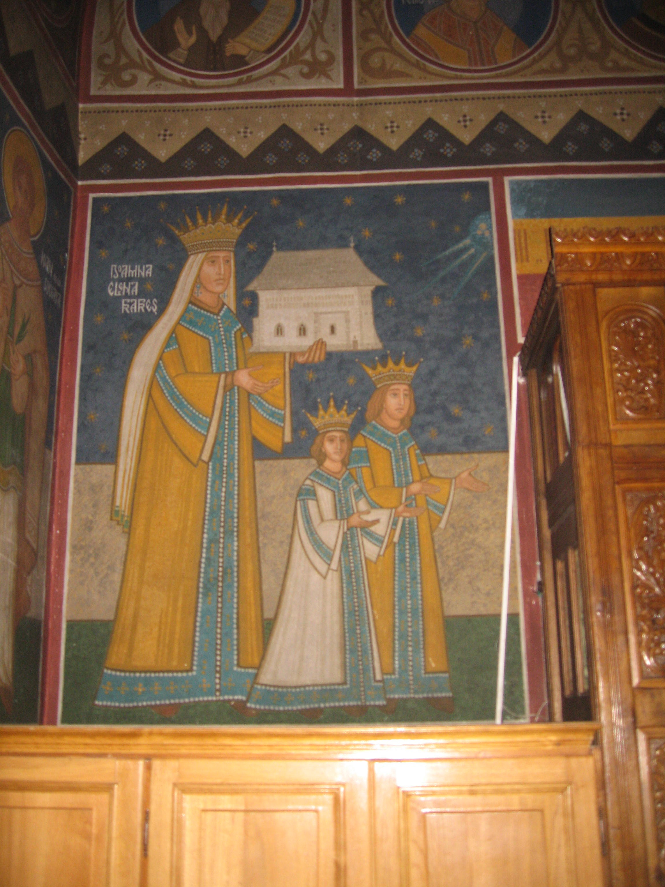 Resurrection Church in Suceava - inside painting of Elena Rareş and her sons.